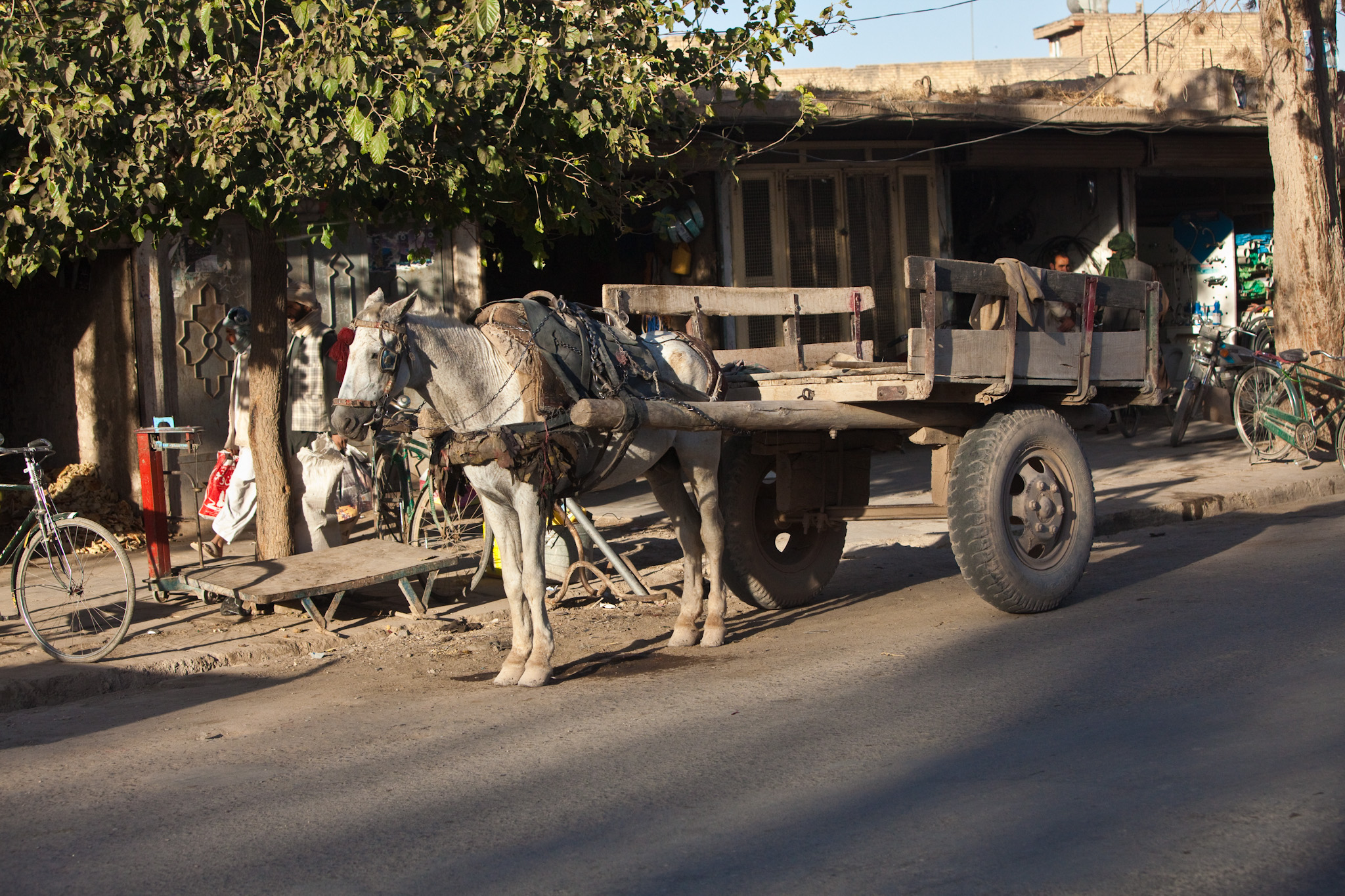 Herat